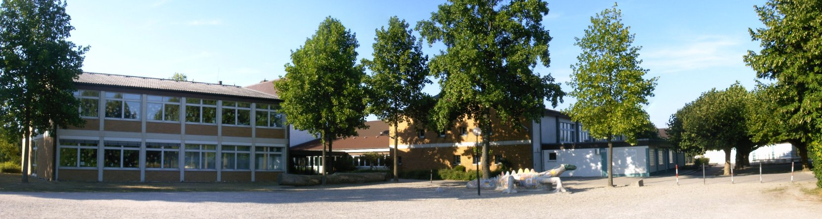 New school building in Ottersdorf, part of Rastatt, Germany